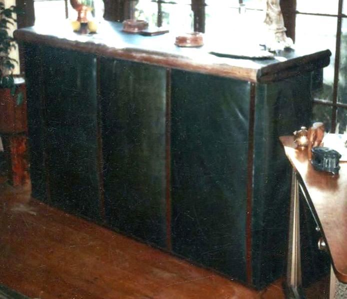 Front Desk of The Beverly Hills Hotel (1942-1979) given by hotel's owners to Count Demitz when the lobby was remodeled, and used as a bar, as released by image creator Lars Jacob ProdPlace: 1412-1/4 N. Hayworth Ave., West Hollywood, California